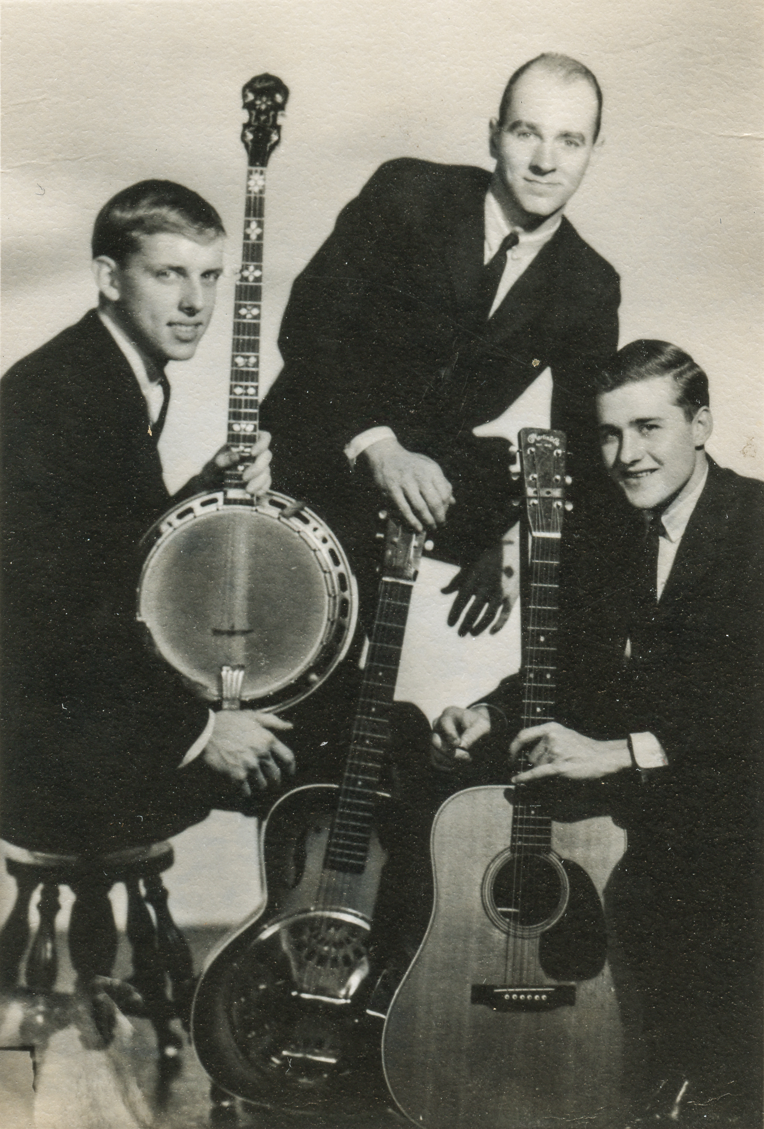 Knoblick Upper 10,000